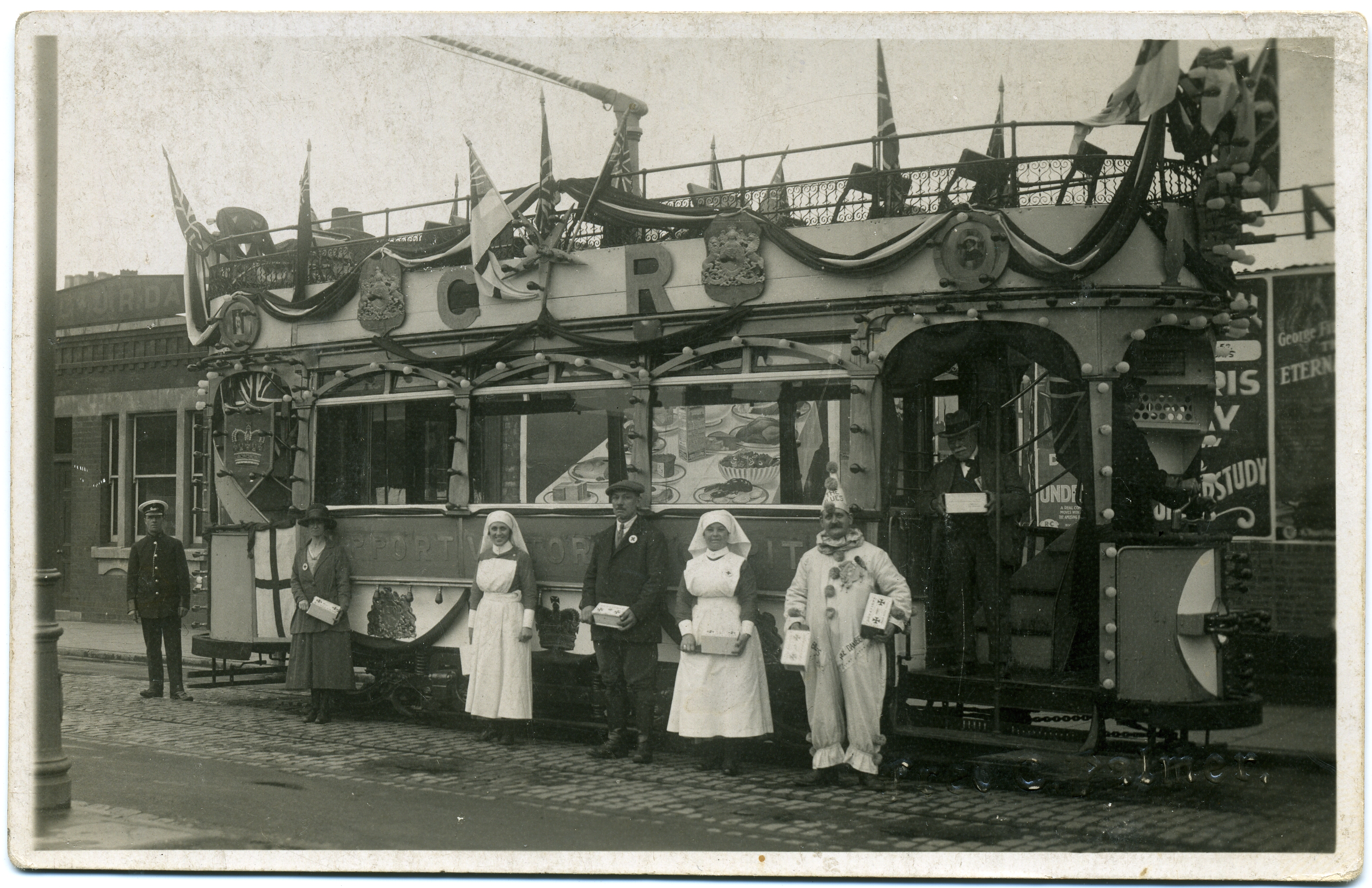 Postcard of tram apparently dressed to celebrate a festival in relation to King George V. The lettering behind the people says "Support Victoria Hospital, and the collection boxes are possibly for Red Cross or just for the hospital, so the tram is possibly part of a parade. The photo was taken in Fleet Street in Swindon, Wiltshire, England in the 1920s-1930s. Old handwriting in debased copperplate and fountain pen on the back says: "Taken along Fleet St. No Shops only hoarding. re. reflection in tram". The women's clothing suggests very early 1920s. On 6 May 1920 George V had been 10 years on the throne. The photographer was Fred C. Palmer of Tower Studio, Herne Bay, Kent ca.1905-1916, and of 6 Cromwell Street, Swindon ca.1920-1936. He is believed to have died 1936-1939. Points of interest: The tram driver stands on the left. The man in front of the tram on the right is wearing Pierrot costume. All the men except the tram driver have German moustaches. Border The remaining border of this image is important for researchers of this photographer. Some photographers trimmed their images more than others, and Palmer has a reputation for producing smaller postcards than other early 20th century UK photographers. He took his own photos, developed them in-house onto postcard-backed photographic paper and trimmed them himself. It is worth adding that during hand-developing the border is actively masked with equipment which both crops the picture and causes the white frame or border to appear on the paper. This frame is part of the design and is one of the reasons why the quality of Palmer's work is so interesting, and why there is an article and category for him on English Wiki. Researchers need to see exactly where the edge of the postcard is. Thank you for taking the time to read this.